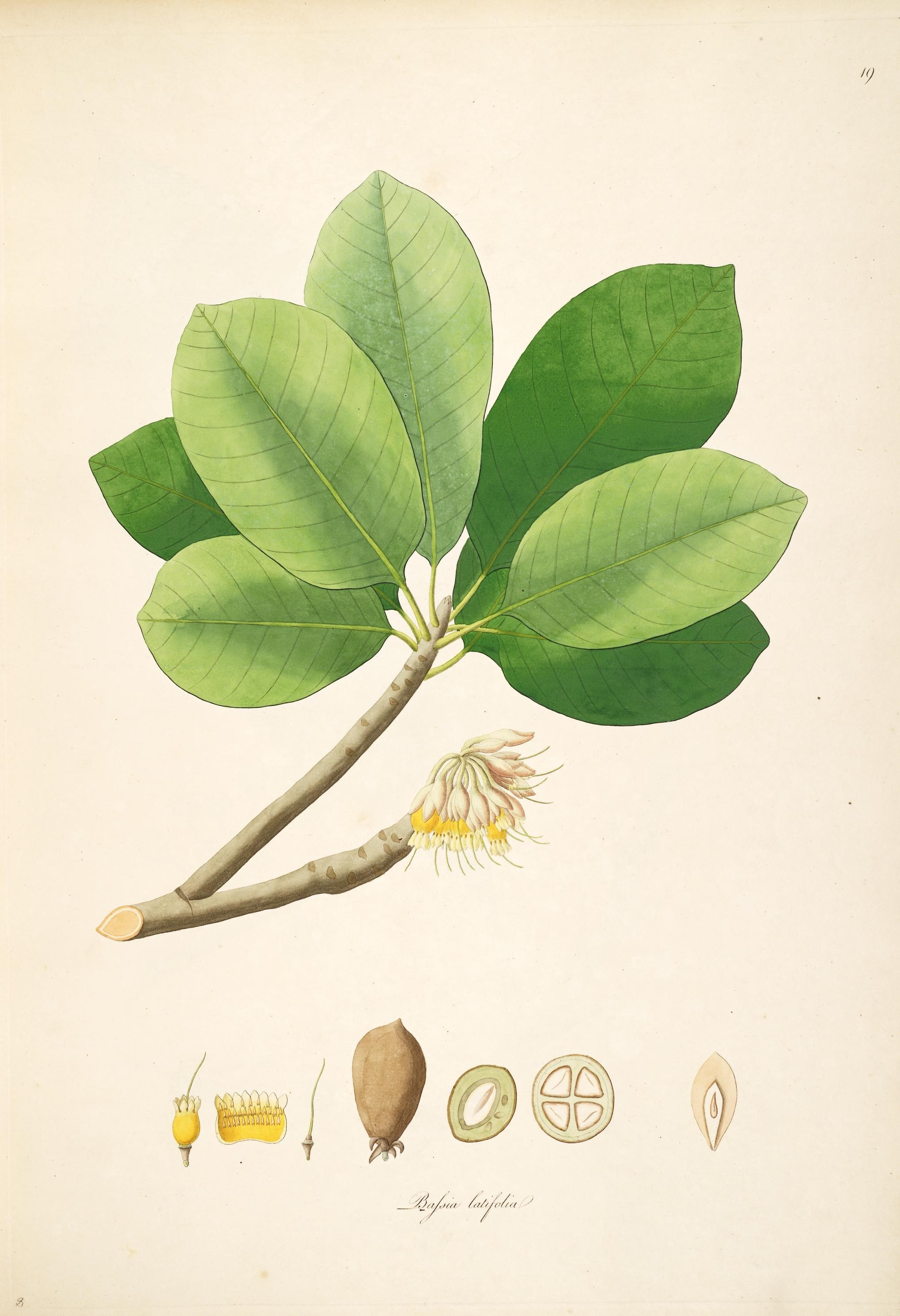 For this 1795 publication with detailed text description on flora in India, see William Roxburgh, Plants of the coast of Coromandel - Volume 1 Coromandel coast stretches from Tamil Nadu to Andhra Pradesh states of India The scientific botanical name is at the bottom of the illustration plate. This 18th century illustration qualifies for PD-Art license.